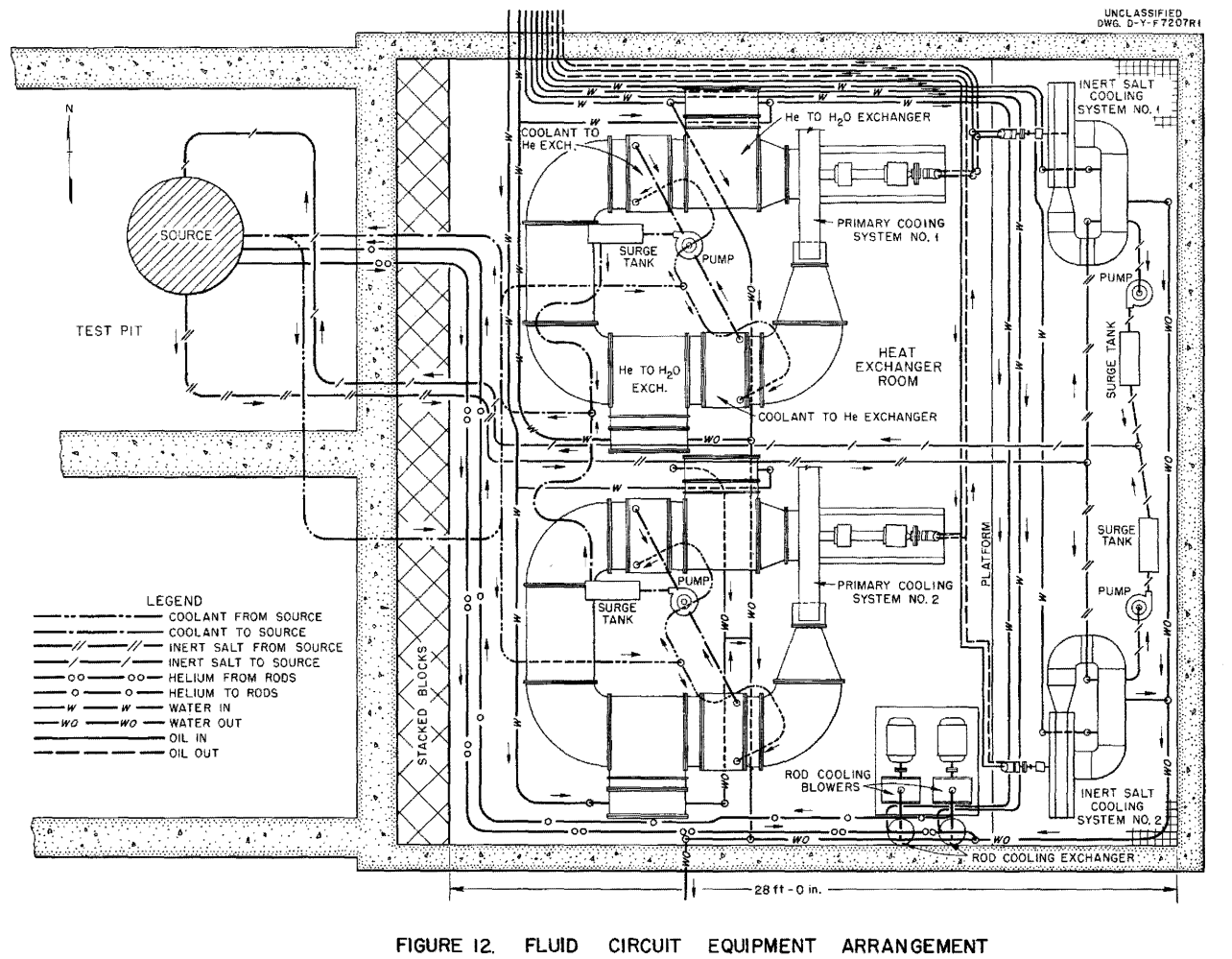 View of the equipment layout in the Aircraft Reactor Experiment. From ORNL-1234